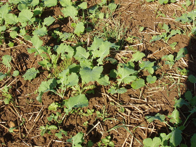 Oilseed rape seedlings, Garsington. In the field shown in 248021.